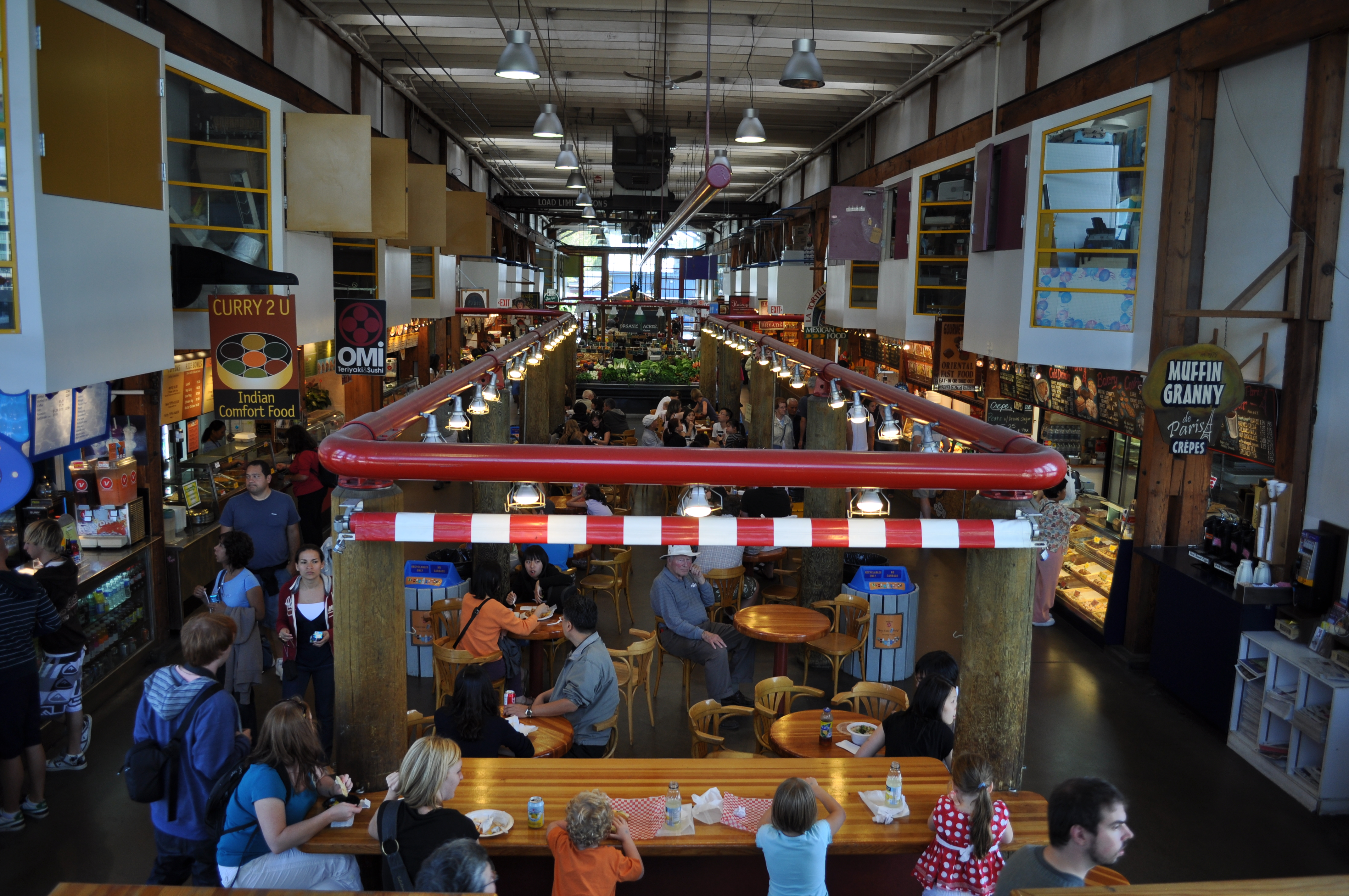 Interior, Granville Island Public Market, Granville Island, Vancouver, BC.